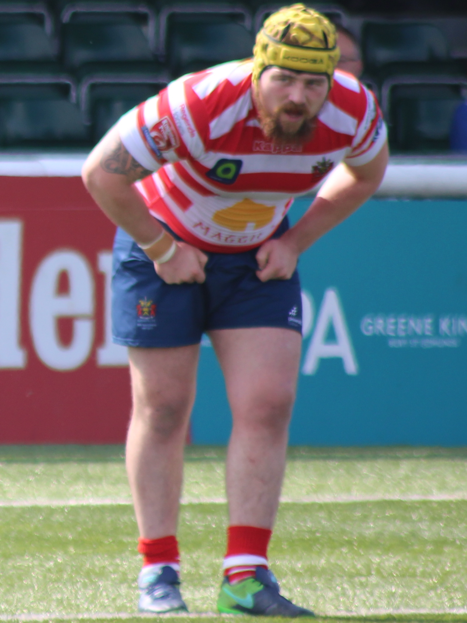 Michael Ward